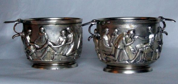 The Hoby beakers/chalices/cups of silver from the Roman Iron Age. Marked with the Roman name Silius and the name of the artist. Found in Hoby, Lolland, Denmark in 1920